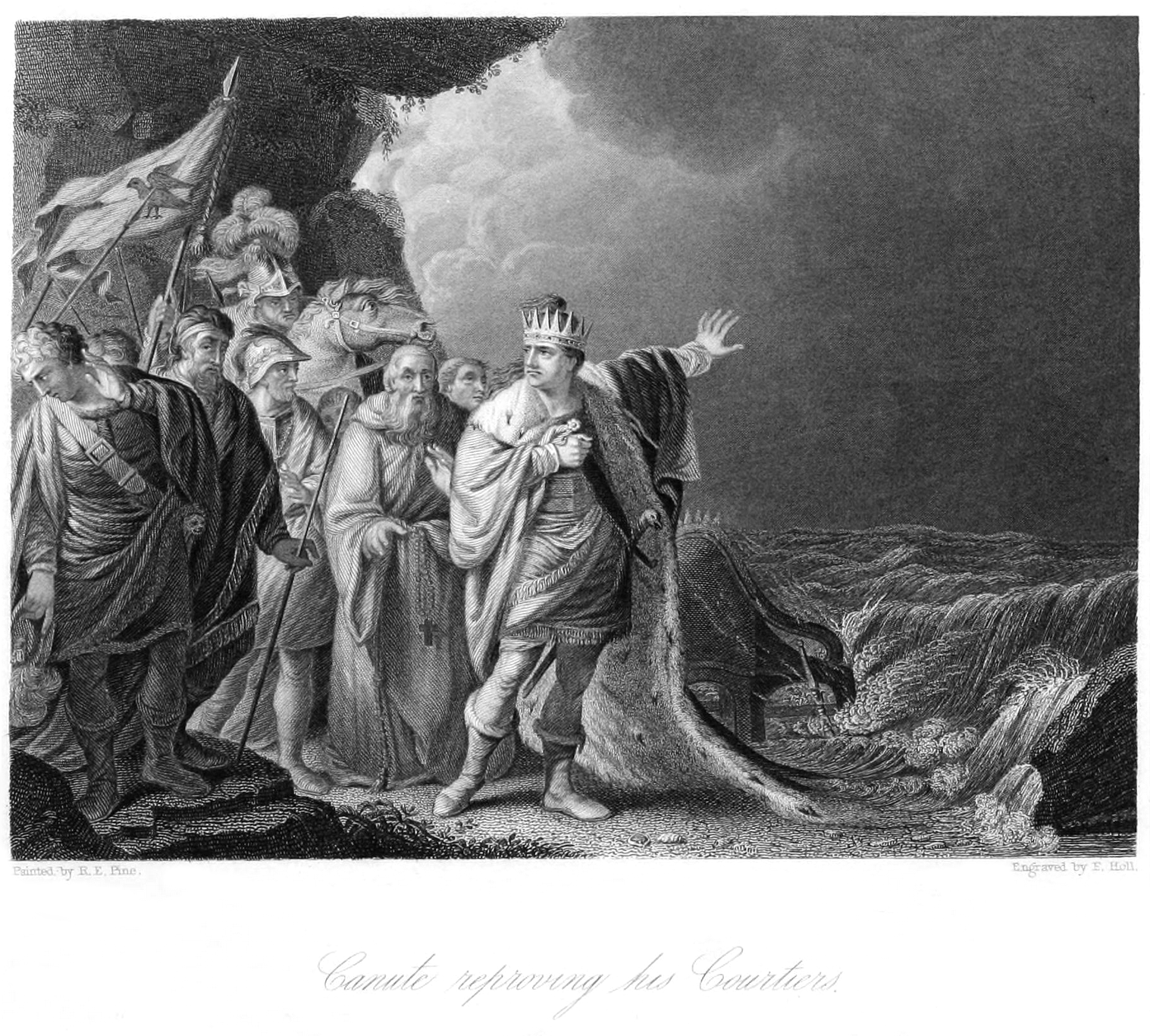 An 1848 Illustration of the legend of King Canute and the waves